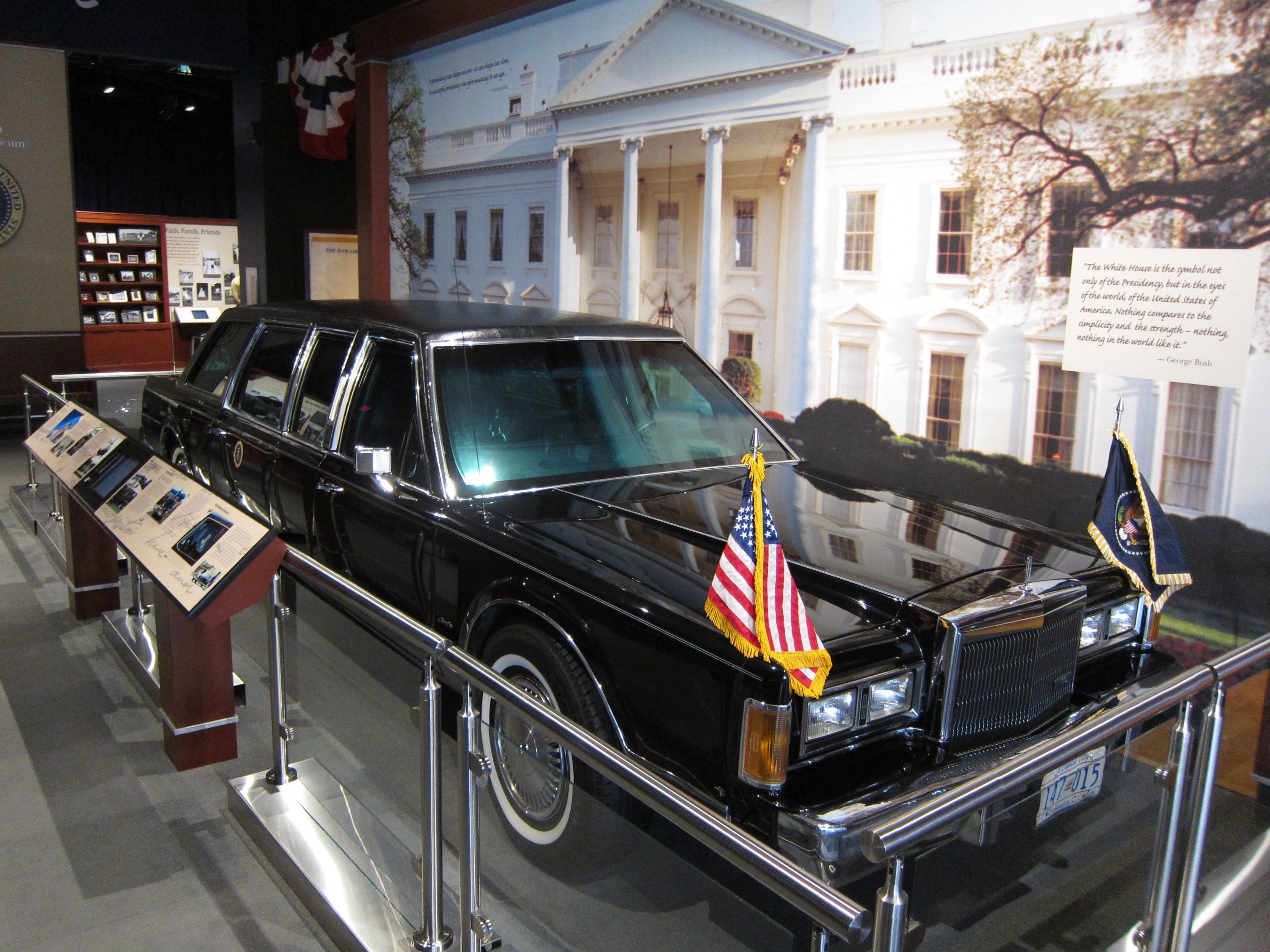 The armored Presidential State Car of George H.W. Bush on display at his presidential library. It is a highly modified 1989 Lincoln Town Car.